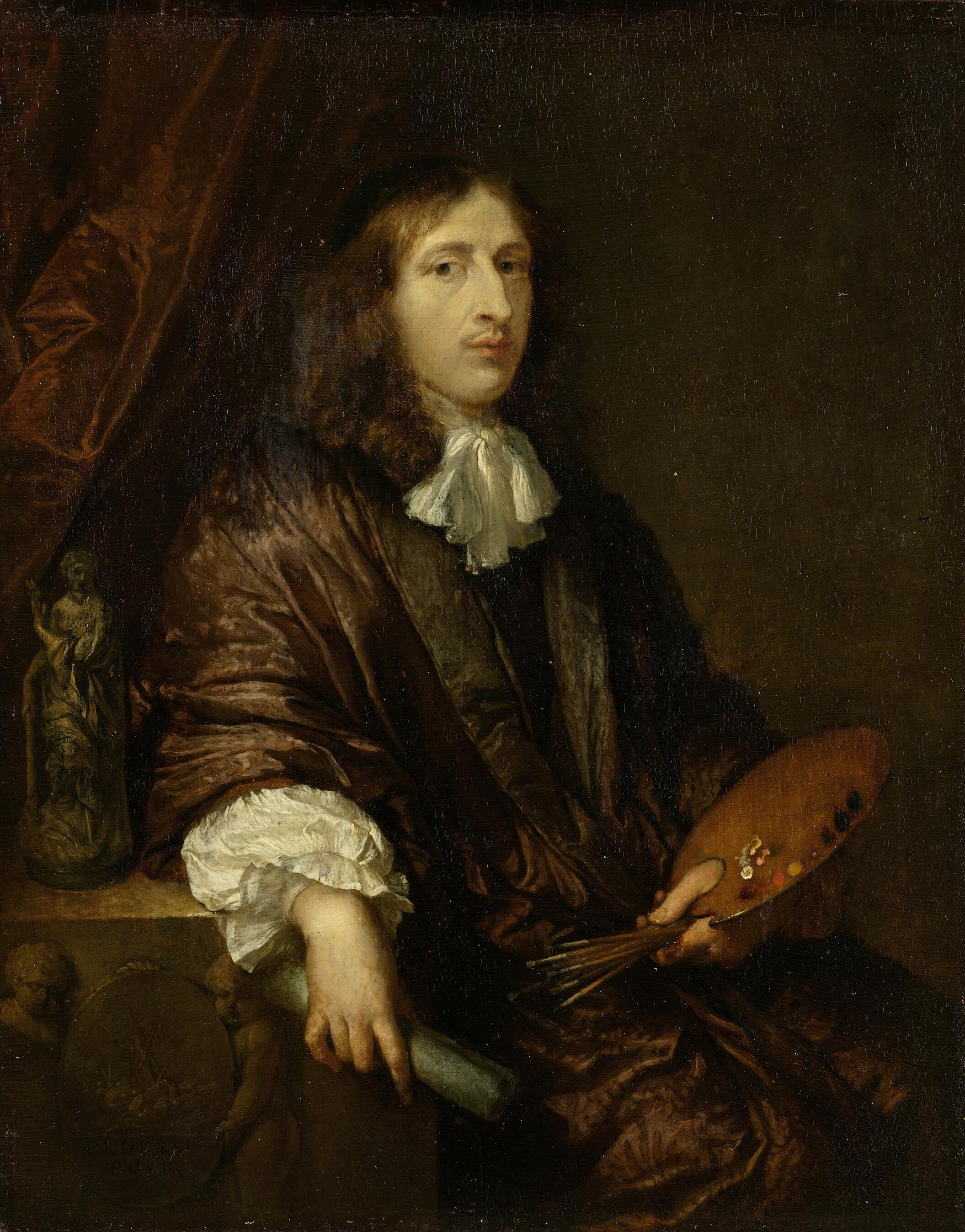 Self-portrait of the painter Caspar Netscher (1639-1684)